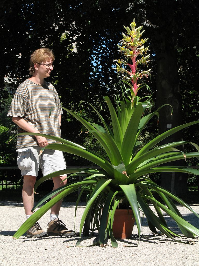 Alcantarea regina in cultivation at the Botanical Garden of Heidelberg, Germany.